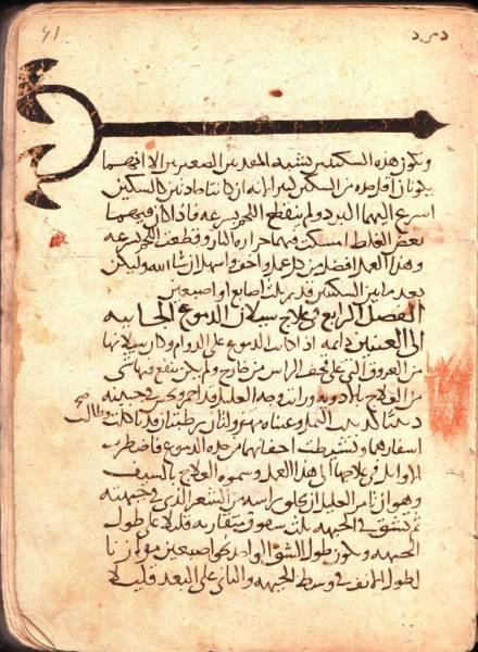 Al-Maqalatun Salasun surgery book instruments manuscript from Azerbaijan